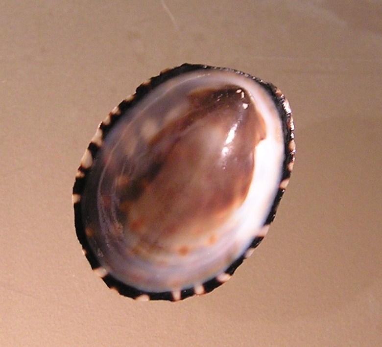 Cellana strigilis (Hombron & Jacquinot, 1841), a limpet from the family Nacellidae; New Zealand